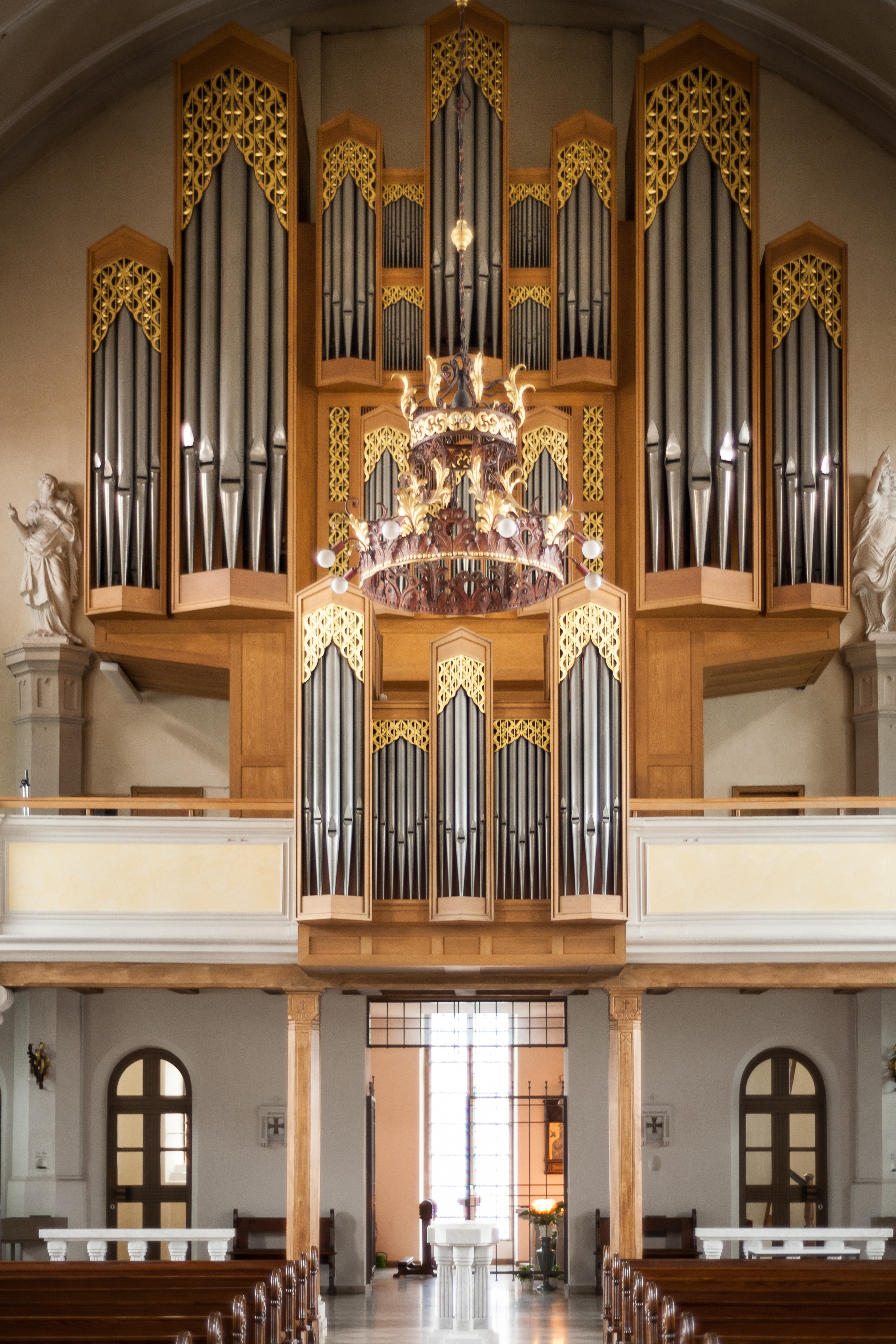 Organ of catholic church St. Martinus (Emsland dome) in Haren (Ems), Lower Saxony, Germany.